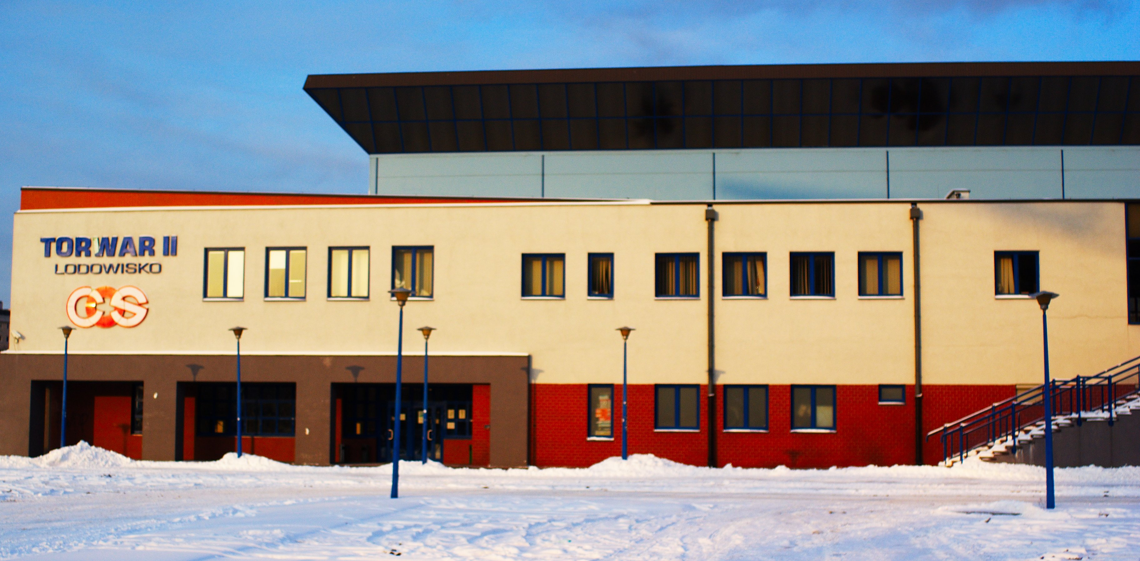 Torwar II, Warsaw, Poland Tagalog: Torwar II, Warszawa